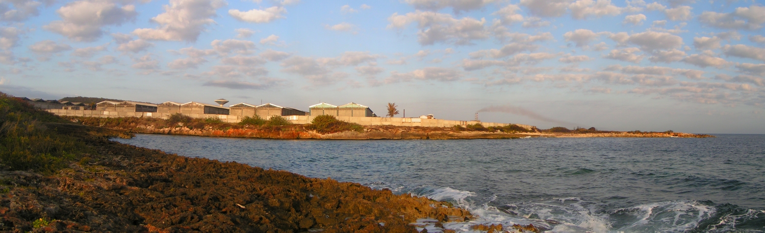 Havana Club rum distillery on the coast in Santa Cruz del Norte, northern Cuba.